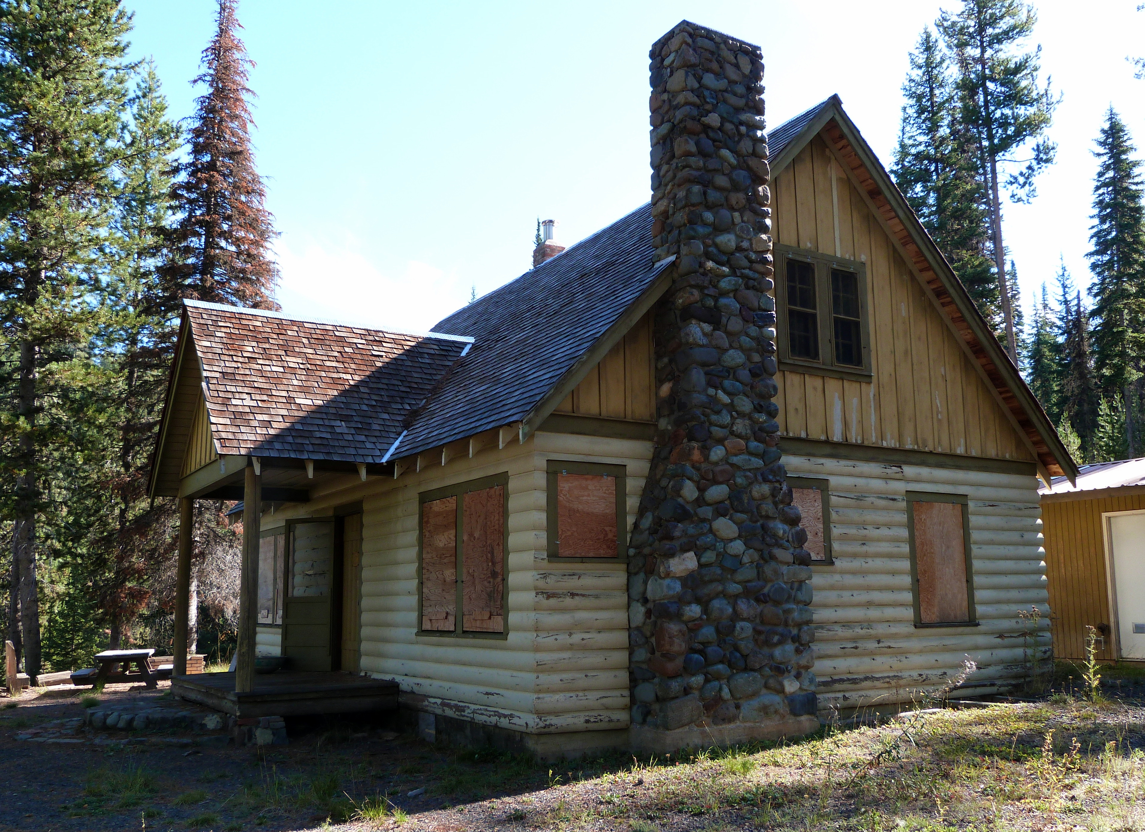 Residence # 1030 at the historic Lick Creek Guard Station (built 1930) in the Wallowa–Whitman National Forest, Oregon, United States. The guard station ensemble is listed on the US National Register of Historic Places.